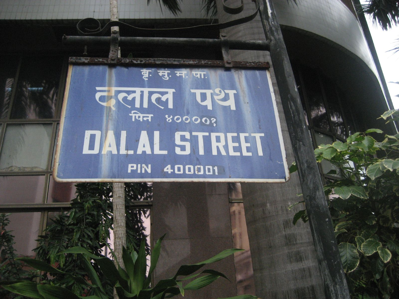 Dalal Street is India's Wall Street. The building in the back is the base of the huge stock marketing building.